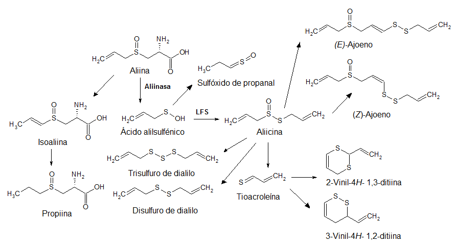 Alliyl mercaptanes biosynthesis